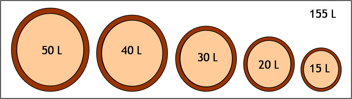 Configuration and capacity of a typical barrel set used for the production of traditional balsamic vinegar